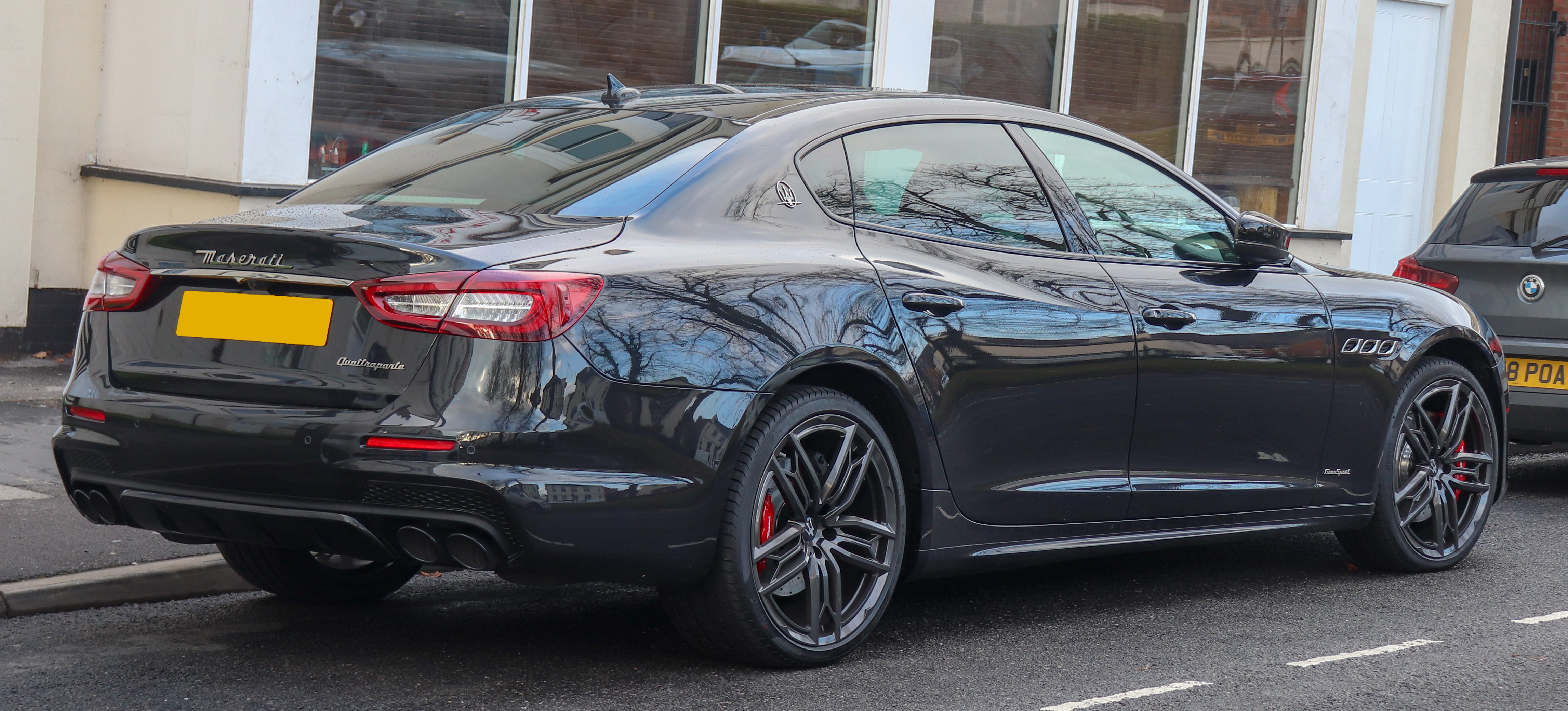 2018 Maserati Quattroporte V6 Automatic 3.0 Rear Taken in Leamington Spa